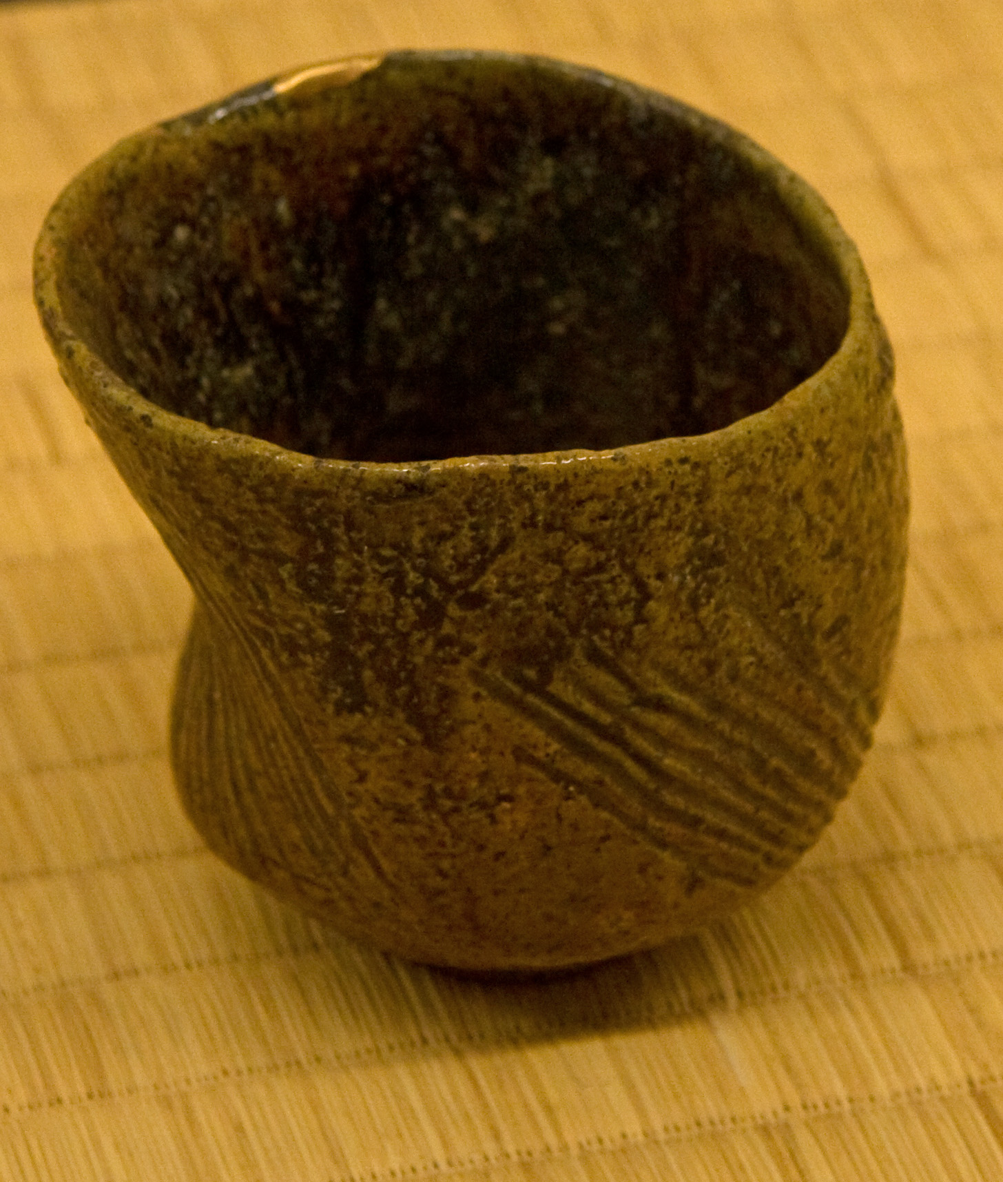 "Hijiri", tea bowl by Ohi Chozaemon I, amber glaze